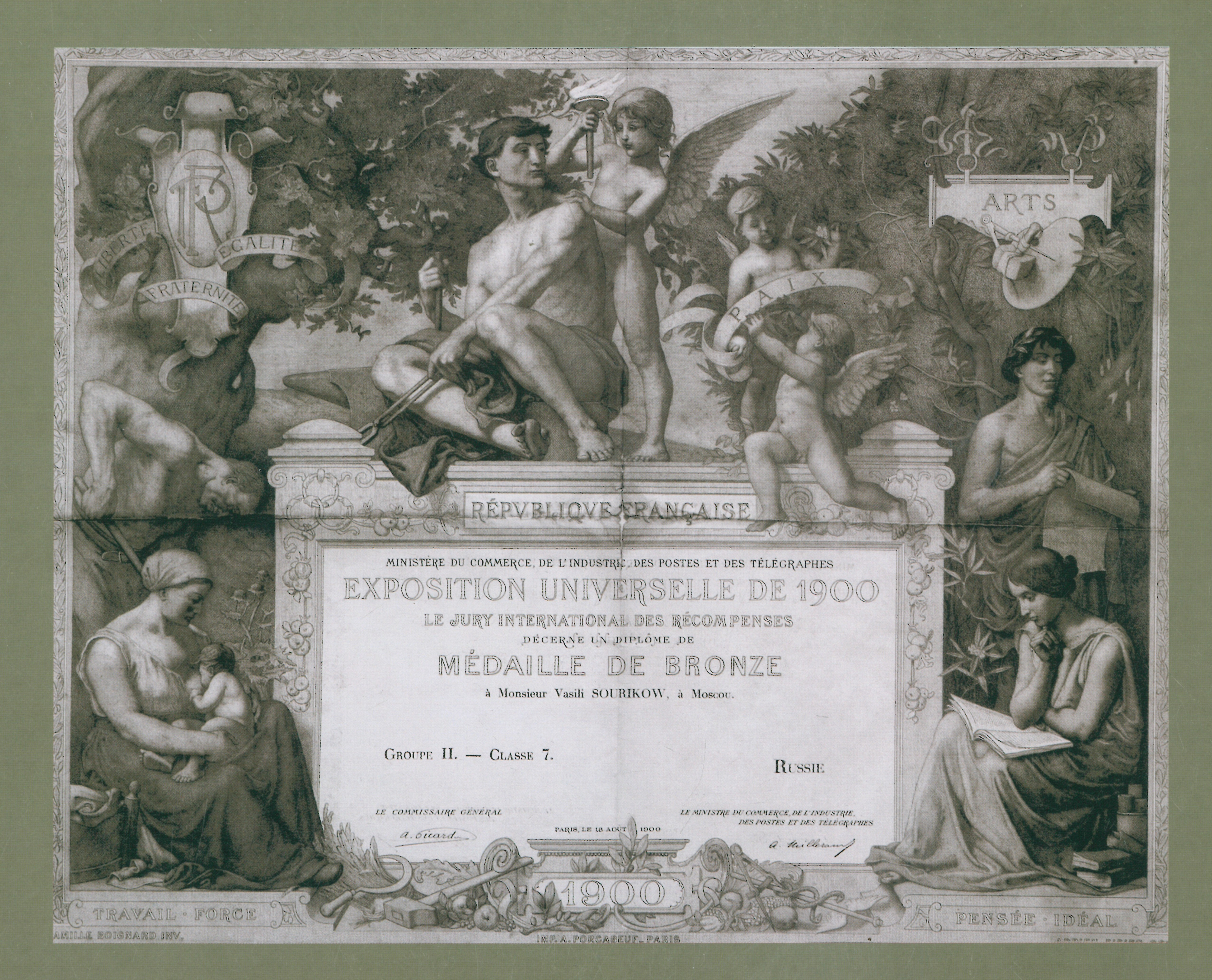 Bronze Medal Diploma issued to Russian artist Vasily Surikov at the 1900 Exposition Universelle in Paris